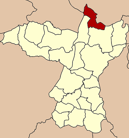 Map of Khon Kaen Province, Thailand, highlighting the district Khao Suan Kwang (อำเภอเขาสวนกวาง)